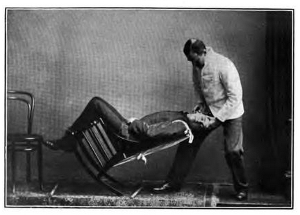 Preparation for excision of the tongue. One in a series of images demonstrating the method originated by the English surgeon Walter Whitehead (1840-1913)